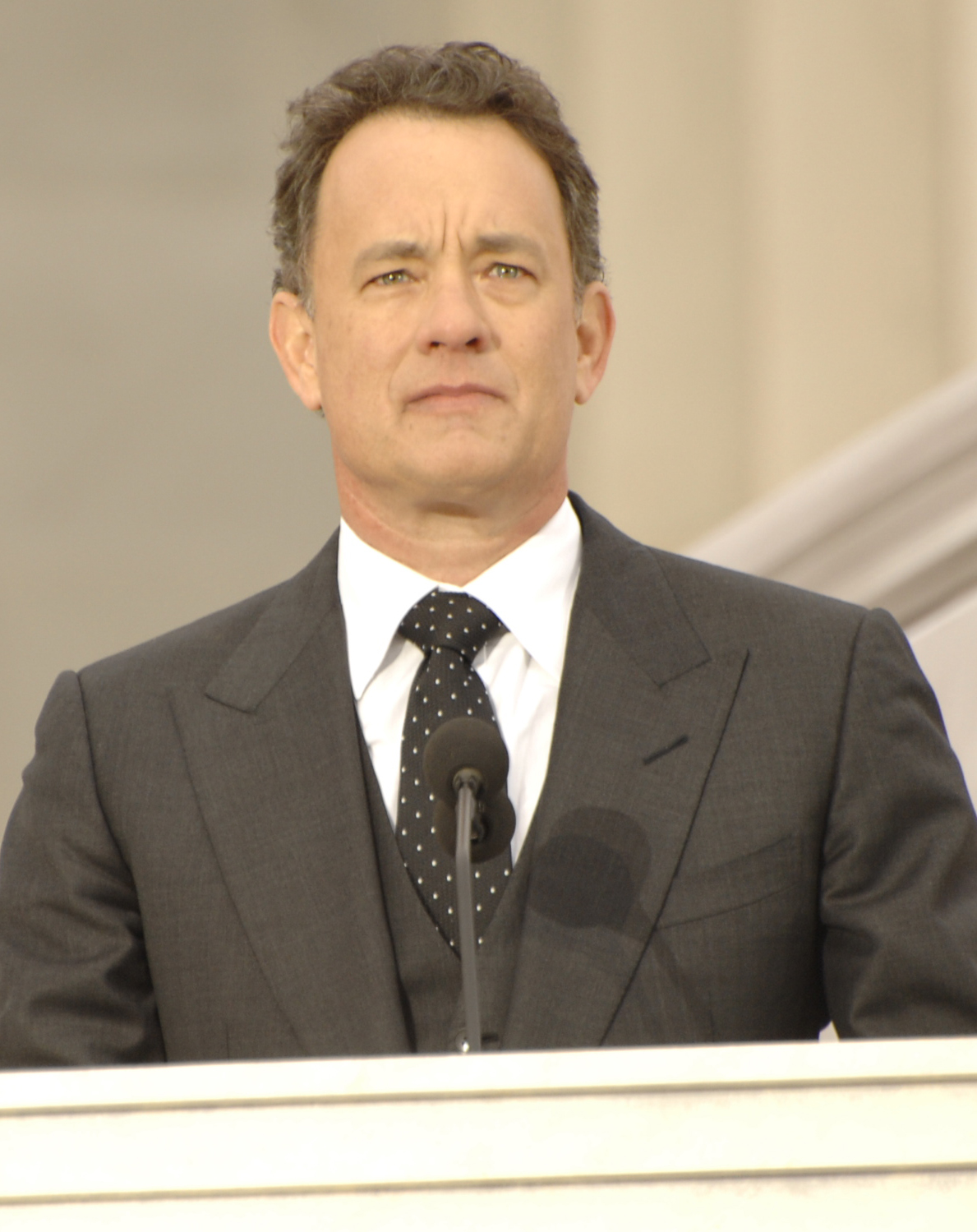 Tom Hanks recites the orchestral work "Lincoln Portrait," written by Aaron Copland, at the Lincoln Memorial on the National Mall in Washington, D.C., January 18, 2009, during the inaugural opening ceremonies. More than 5,000 men and women in uniform are providing military ceremonial support to the presidential inauguration for Barack Obama, a tradition dating back to George Washington's 1789 inauguration.